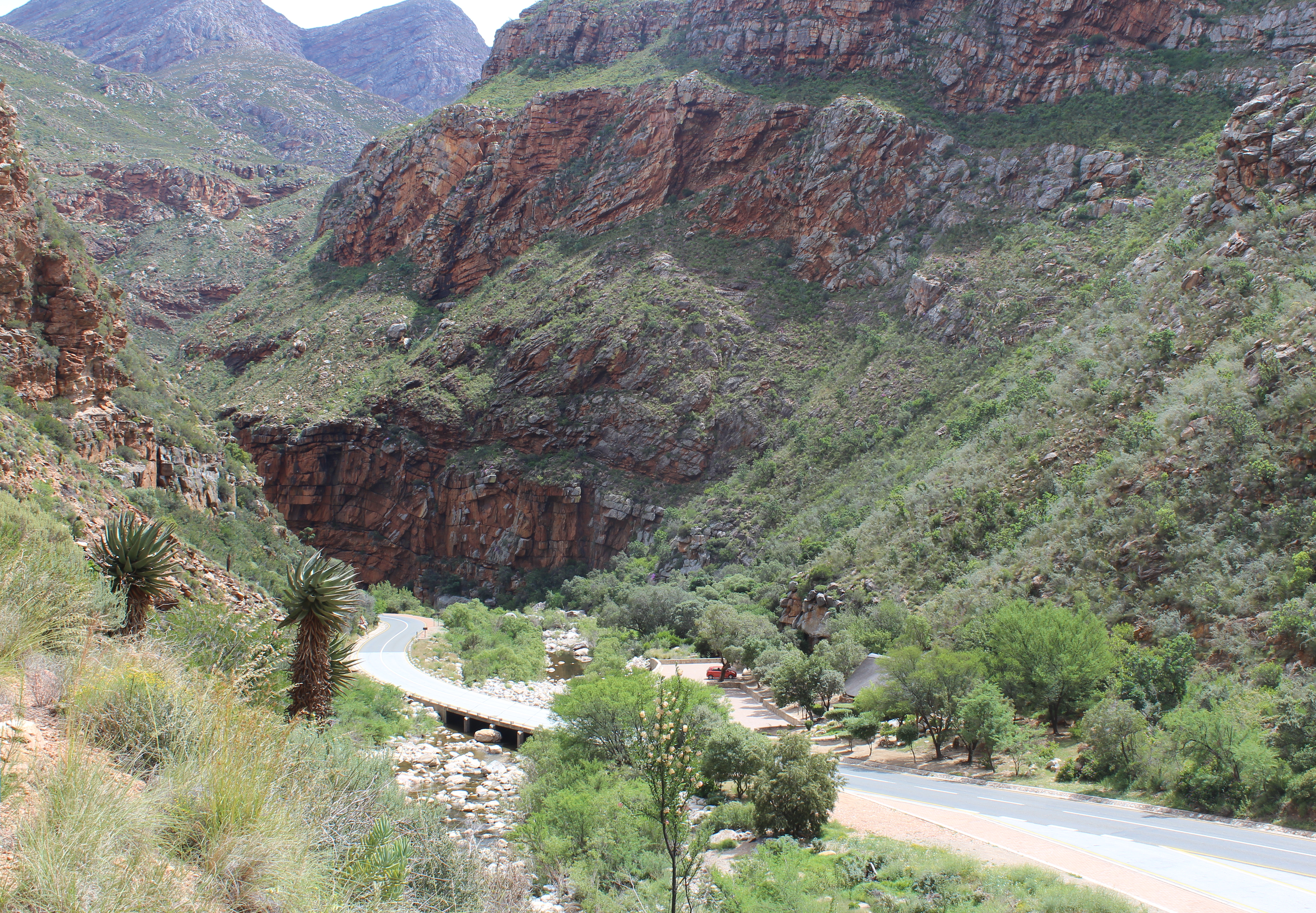 View of the South African N12 road as it passes through Meiringspoort, a 20 km (12 mi) gorge with cliffs of up to 700 m (2300&bnbsp;ft) in the Swartberg, a mountain range that separates the Great Karoo from the Little Karoo. The folds in the Swartberg are clearly visible in both the gorge and in this picture. The Groot River (in spite of its name, little more than a stream) passes through the gorge - one of the many crossings of the N12 and the river are visible in the lower part of the picture. The town of Oudtshoorn is about 35 km (22 mi) from the southern portal of the gorge.